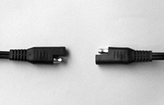 Created by me & released